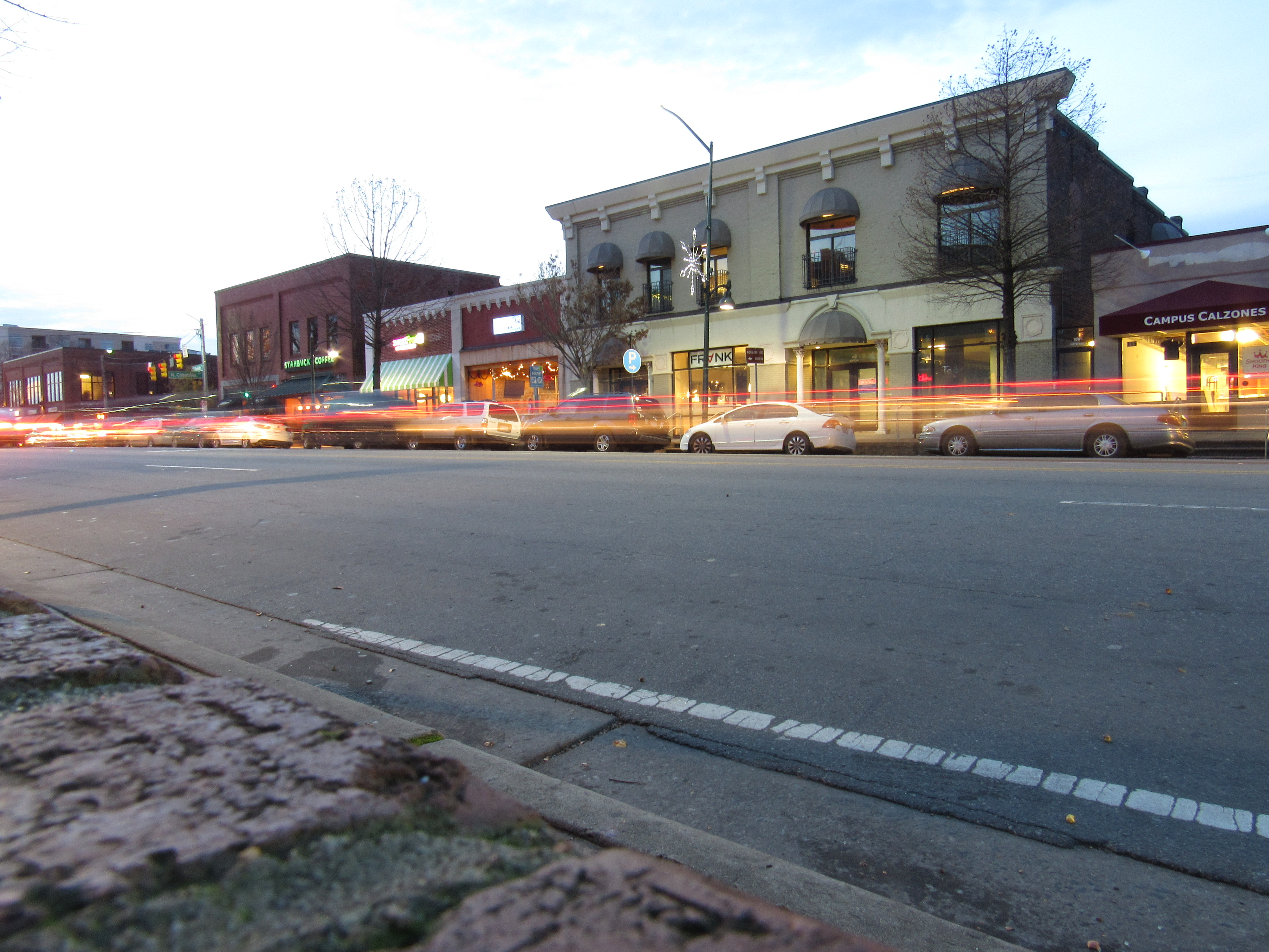 Franklin Street at night